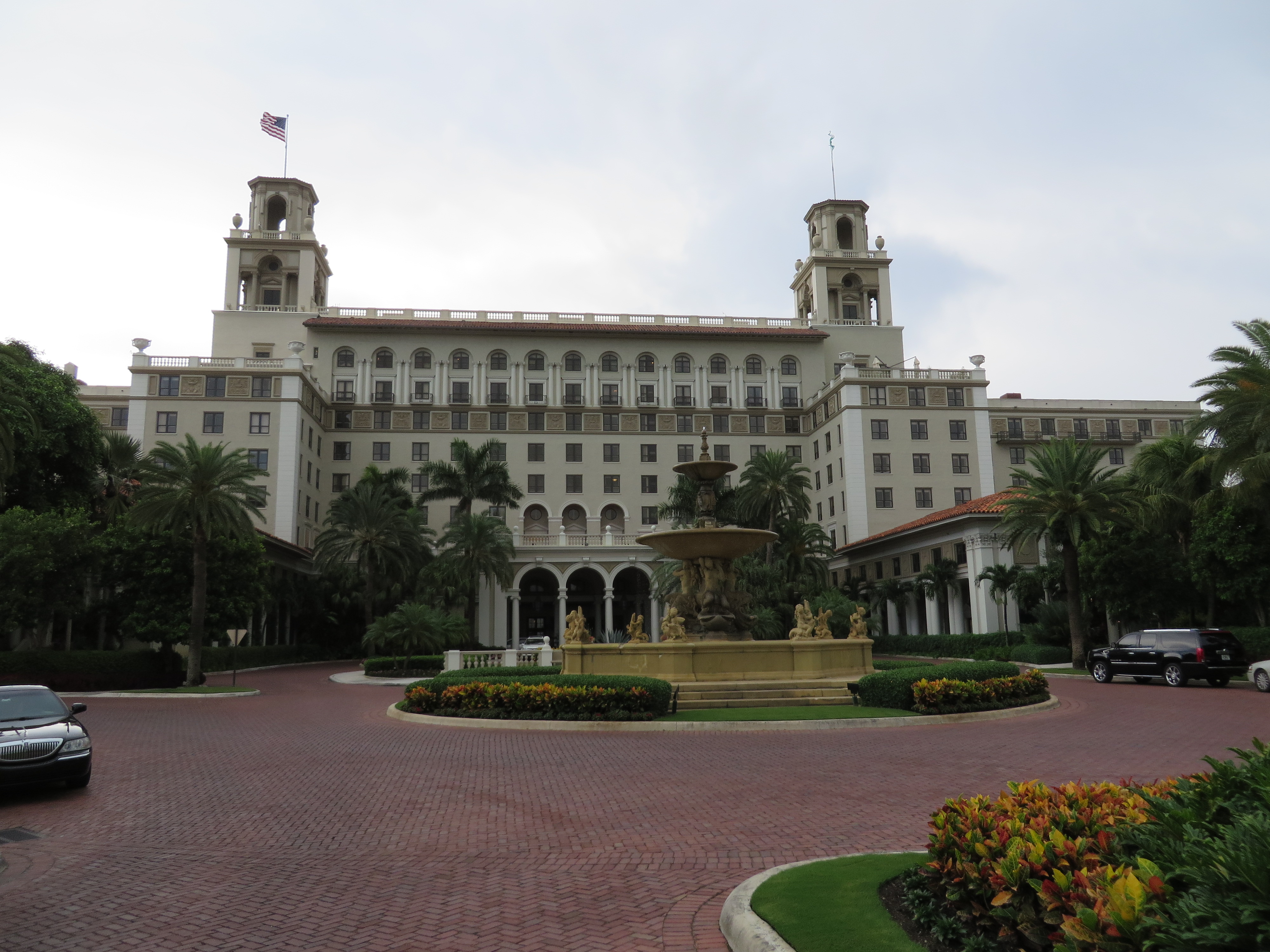 The Breakers hotel, 1 South County Road, Palm Beach, Florida.